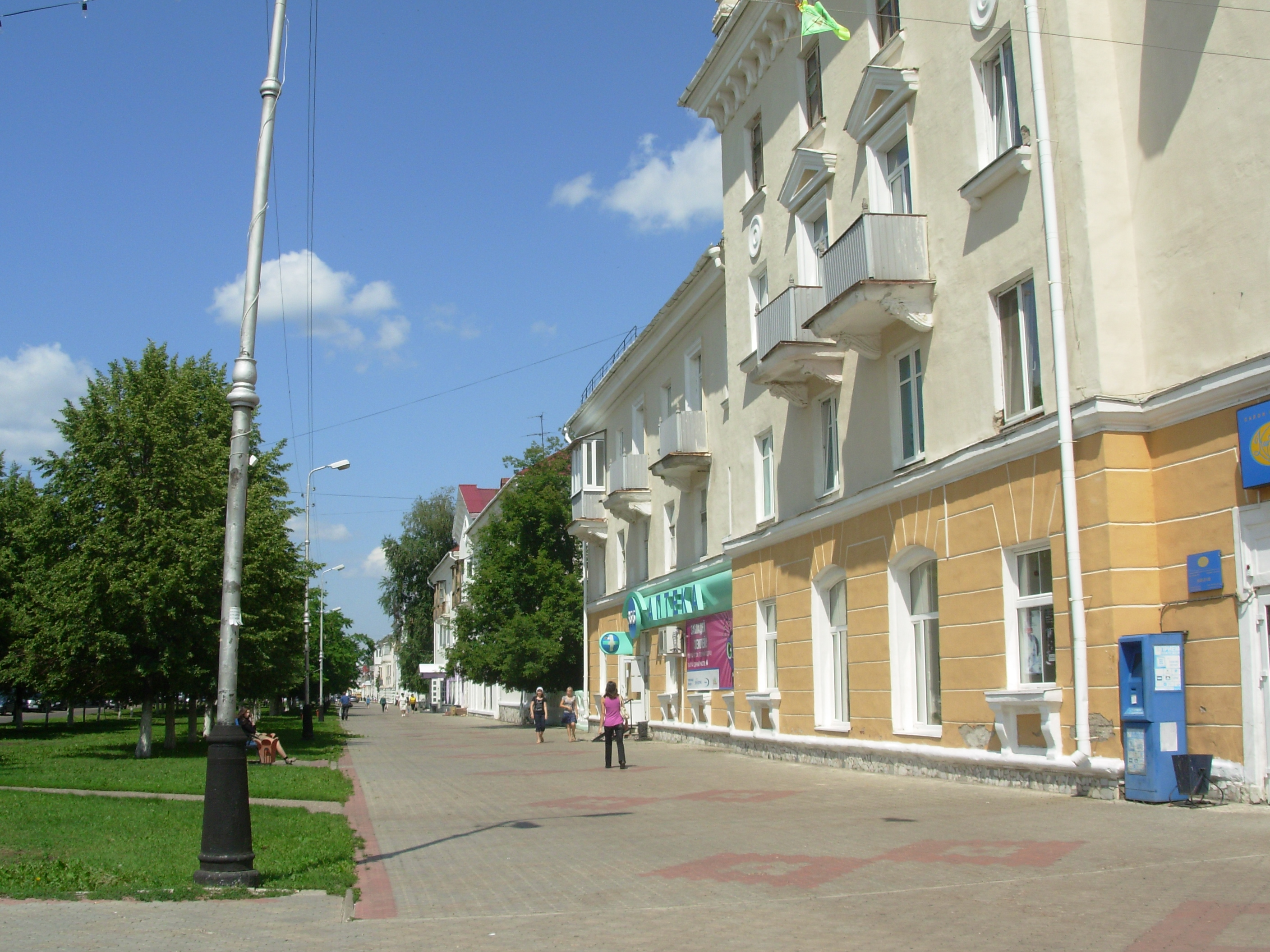 street